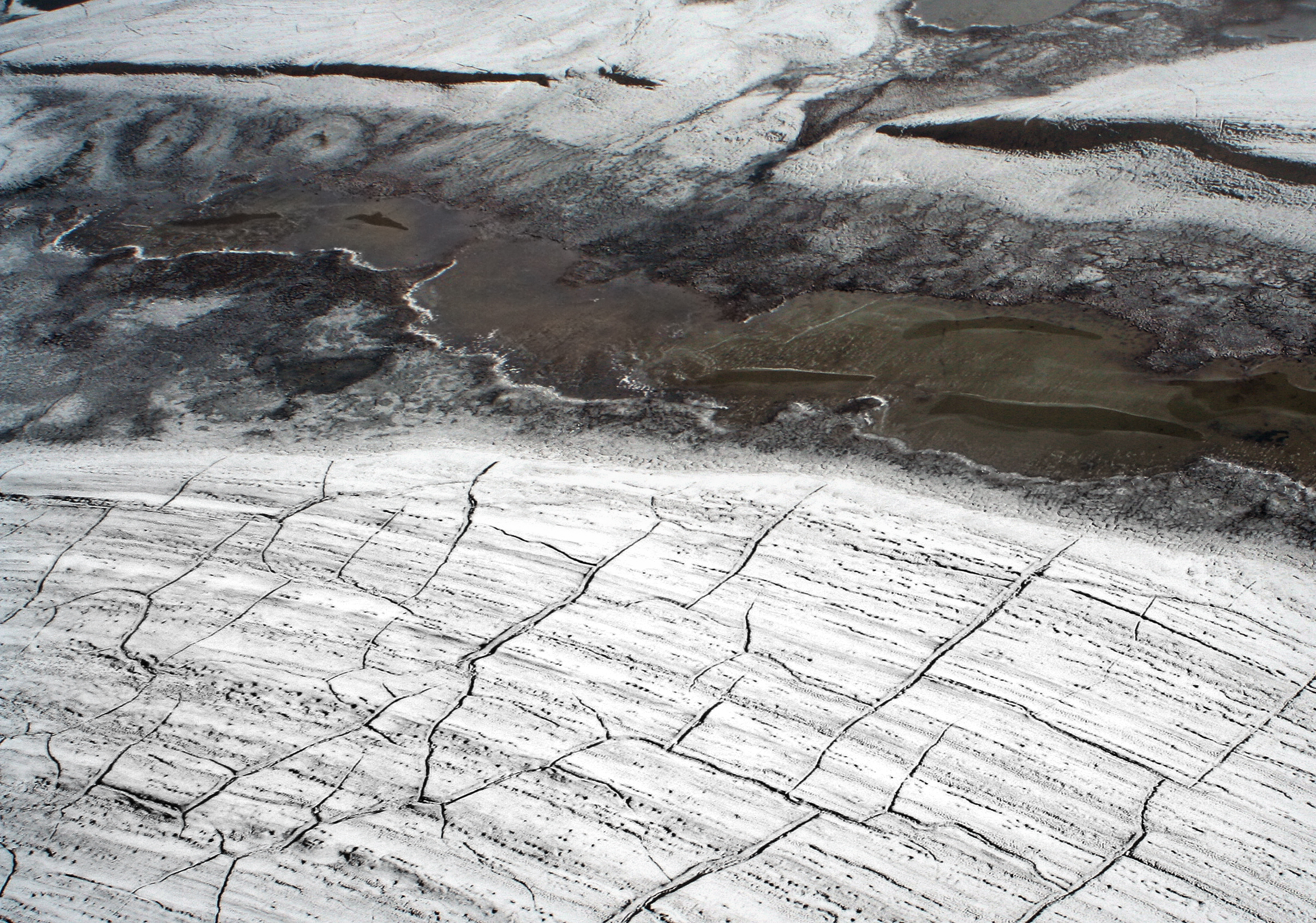 The image was taken in High Arctic from a helicopter. It shows the crack pattern in permafrost. The image was sent to Professor Hallet for interpretation. Here's what he writes about the image: "...these look like very fresh contraction crack polygons, probably ice-wedge polygons and mostly likely they developed on beach sediments that were recently under water. Striking patterns!"